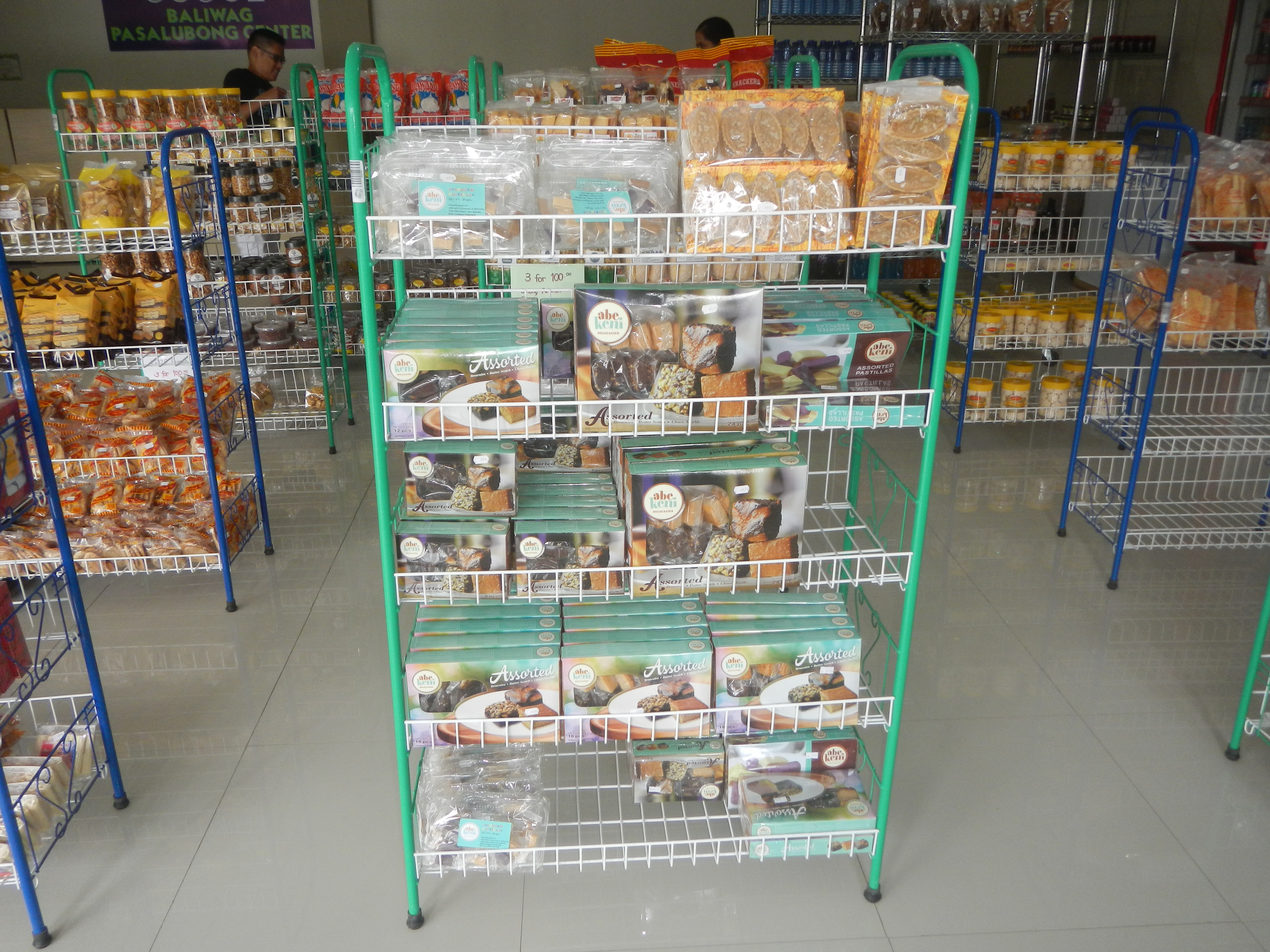 Baliwag Pasalubong Center (Pagala, Maharlika Highway) Pasalubong in Barangay Pagala, 14°58'14"N 120°53'26"E Baliuag, Bulacan, Bulacan province, (accessed from Cagayan Valley Road, Baliuag-Pulilan-Guiguinto, Bulacan) Pan-Philippine Highway, also known as the Maharlika "Nobility/freeman" Highway or Asian Highway 26, Cagayan Valley Road (Note: Judge Florentino Floro, the owner, to repeat, Donor Florentino Floro of all these photos hereby donate gratuitously, freely and unconditionally all these photos to and for Wikimedia Commons, exclusively, for public use of the public domain, and again without any condition whatsoever).